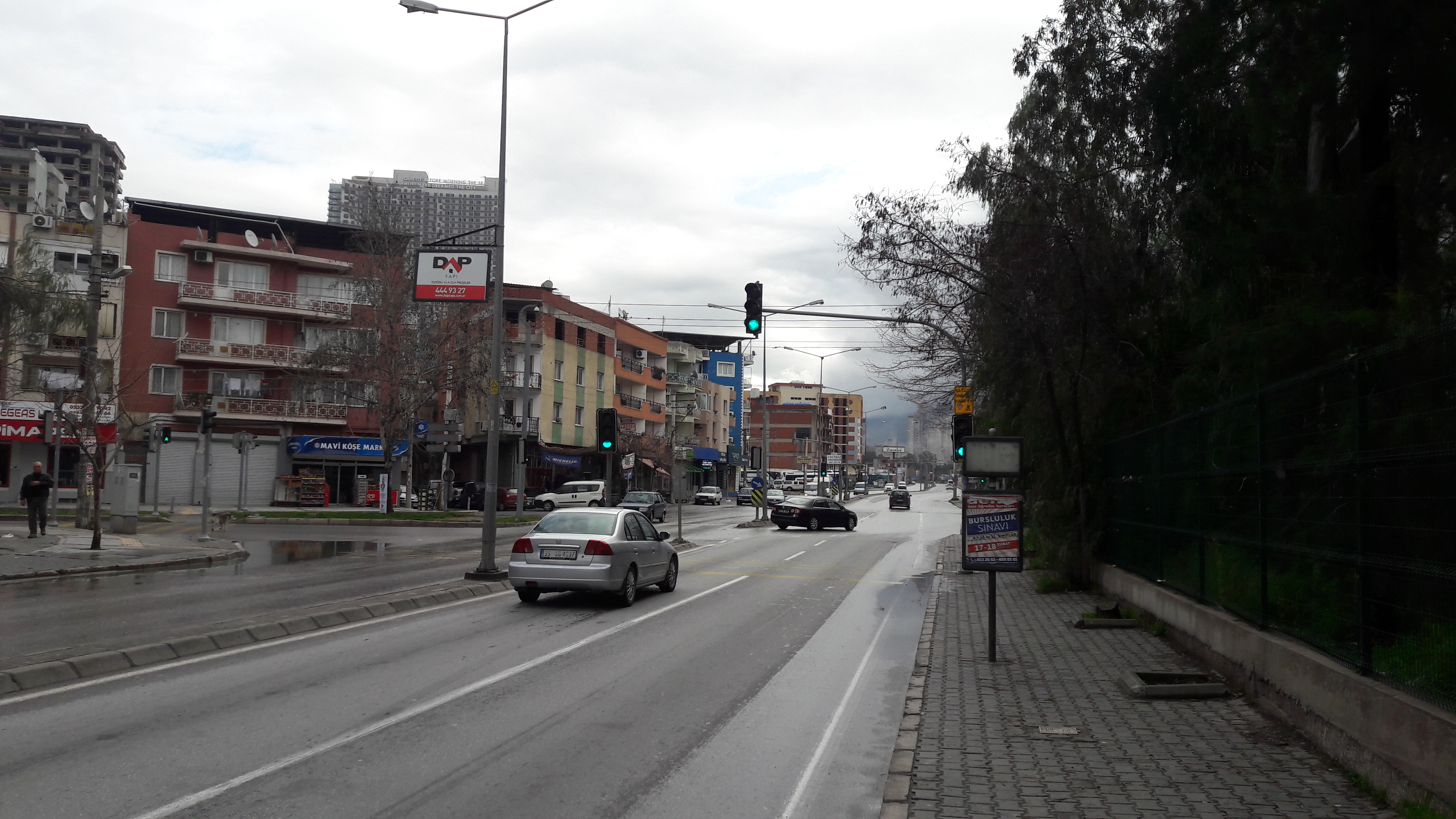 The location of Altindag station of the planned Halkapinar-Otogar metro line.